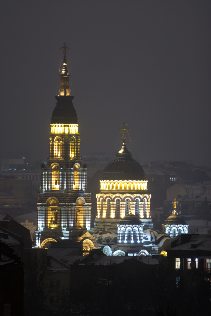 Blagoveshchensk cathedral